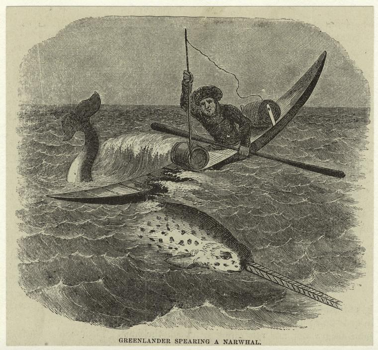 Greenlander spearing a Narwall. 19th century. New York public library. Art and Picture Collection Dynix: 1731448 NYPL catalog ID (B-number): b17234265 Barcode: 33333159400411 Universal Unique Identifier (UUID): c13cbd30-c535-012f-9a7b-58d385a7bc34 The copyright and related rights status of this item has been reviewed by The New York Public Library, but we were unable to make a conclusive determination as to the copyright status of the item. You are free to use this Item in any way that is permitted by the copyright and related rights legislation that applies to your use.